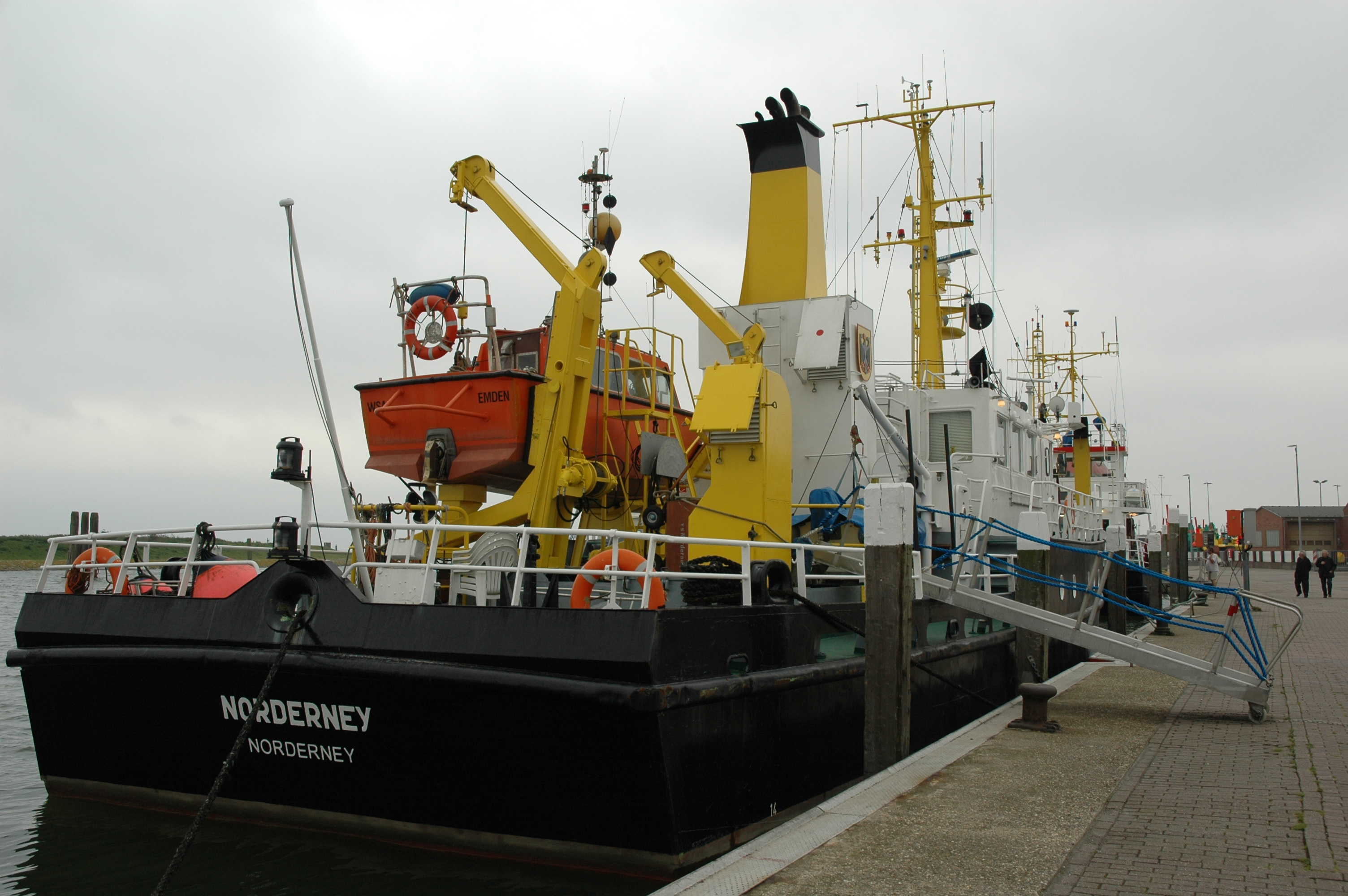 Ship Norderney in harbour of Norderney.